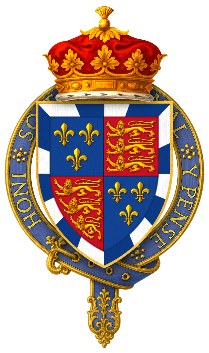 Coat of Arms of Henry Somerset, 10th Duke of Beaufort, KG, GCVO, GCC, PC